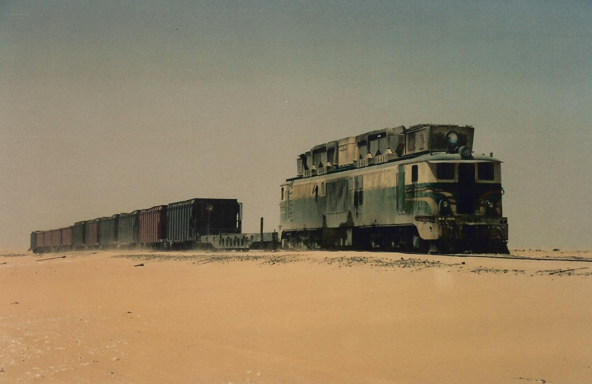 SNIM Alsthom locomotive no. CC05, at the head of a track maintenance train on the Mauritania Railway between Nouadhibou and Zouerate, northern Mauritania.